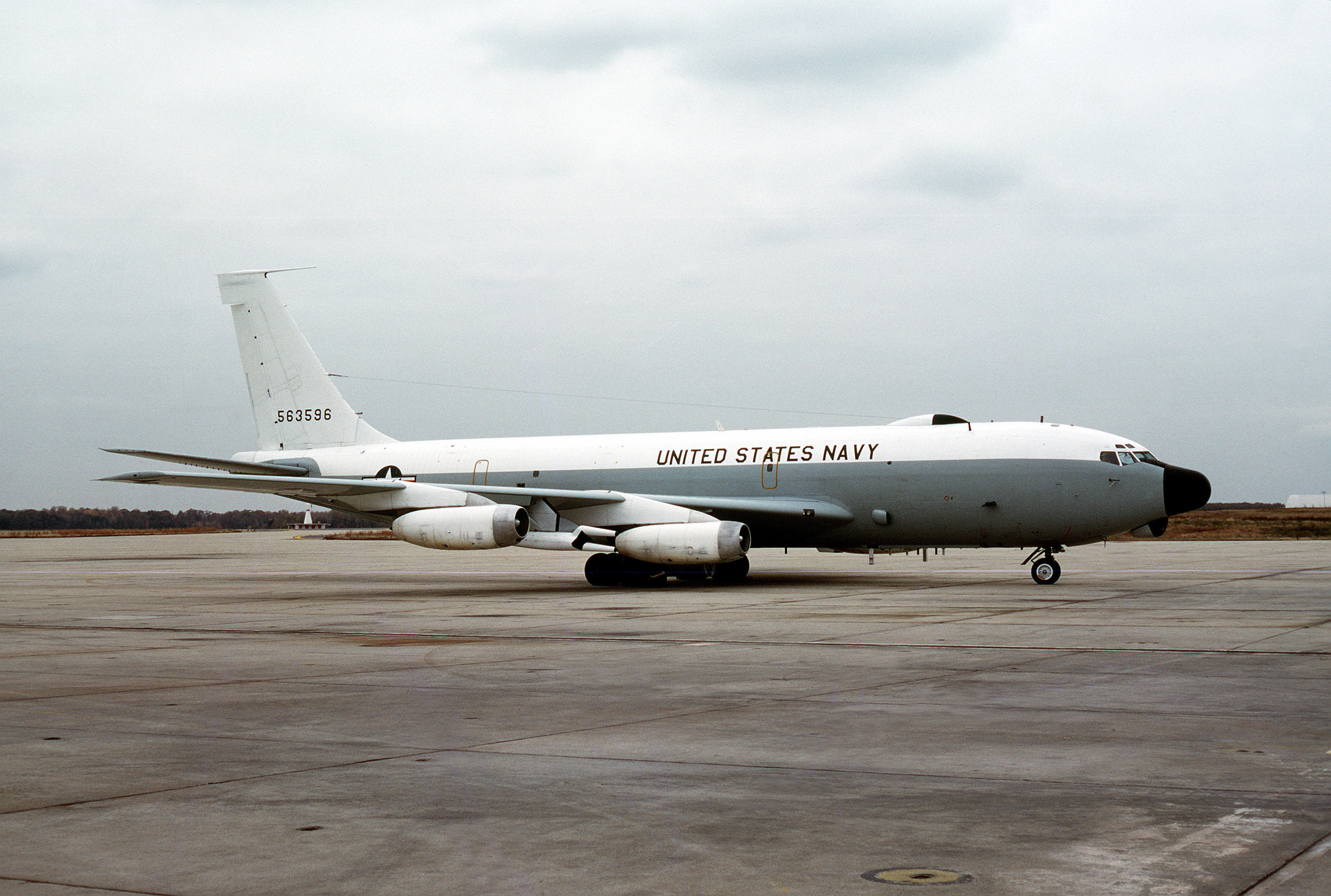 A right side of an NC-135 Stratolifter aircraft on the Naval Air Facility ramp. Location: Andrews Air Force Base